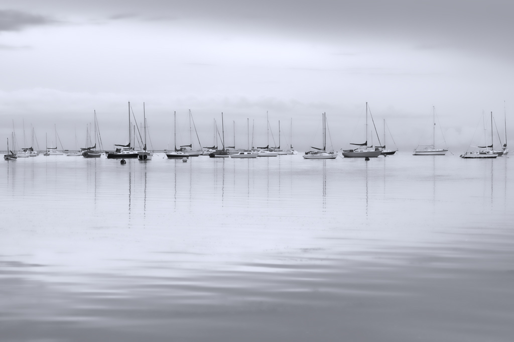 Taken just after sunrise on a calm morning